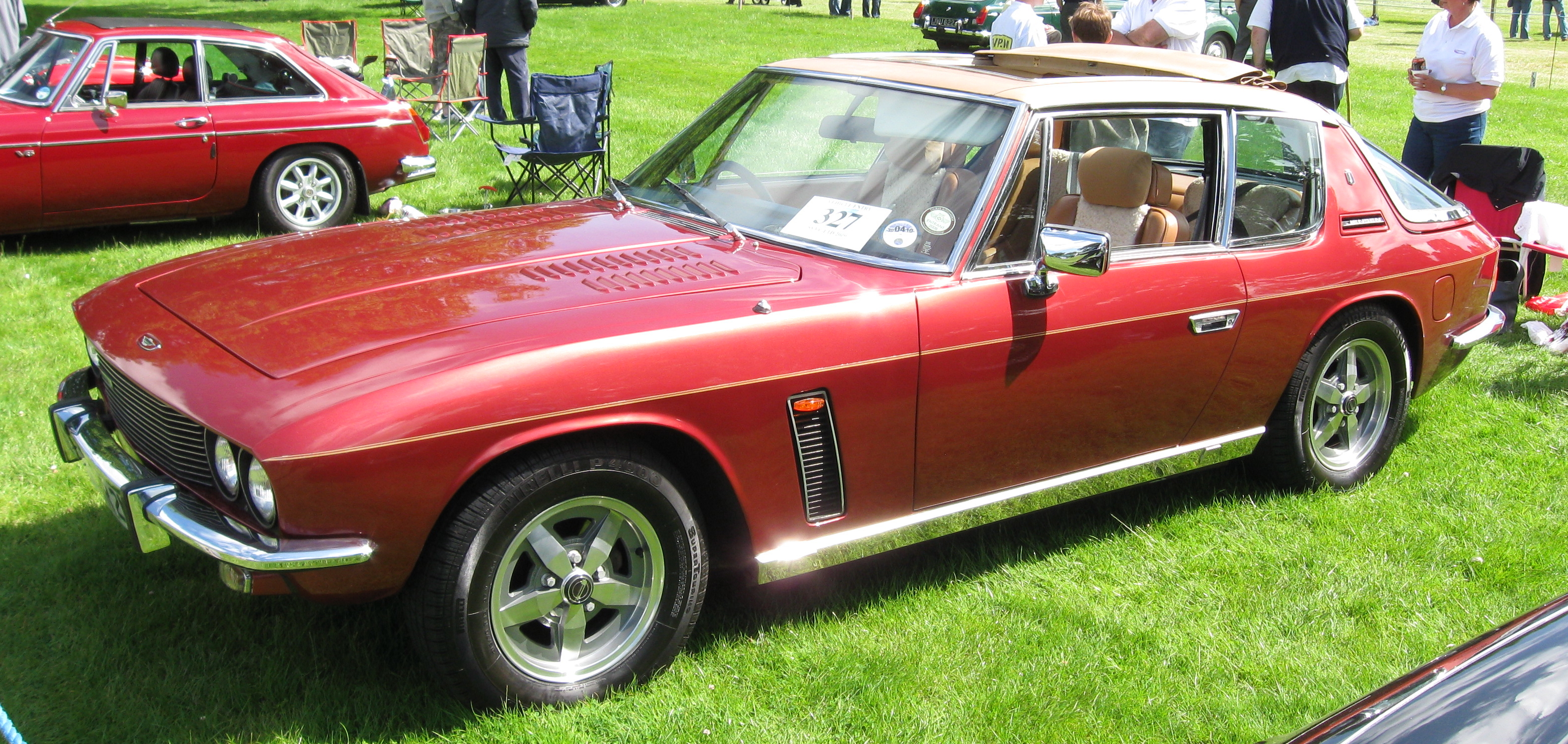 Jensen Interceptor Mk. III at SVVC Extravaganza, Glamis Castle, 2009.